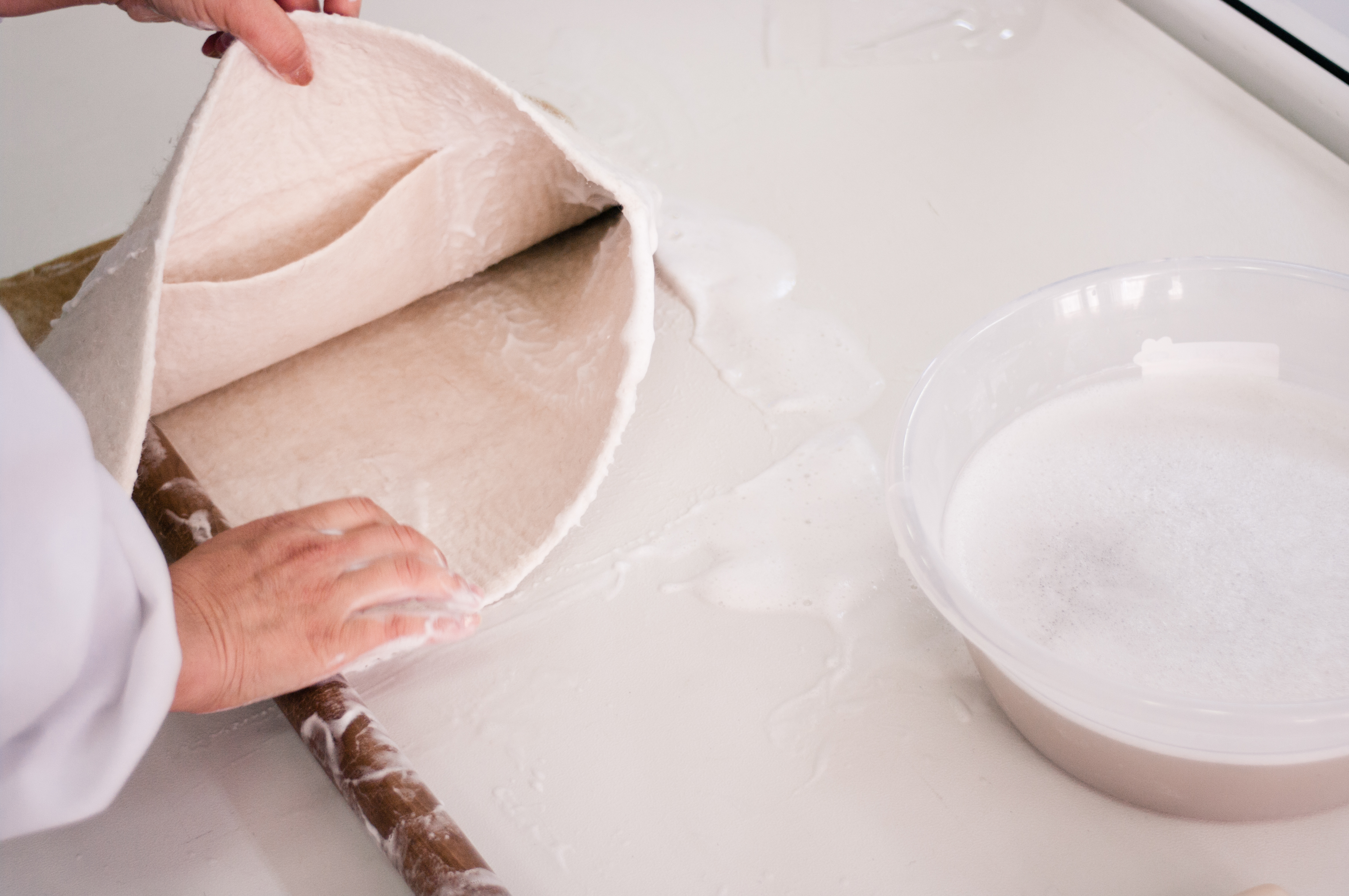 Felt making process as seen in a cooperative on the shores of Lake Issyk Kul, Kyrgyzstan